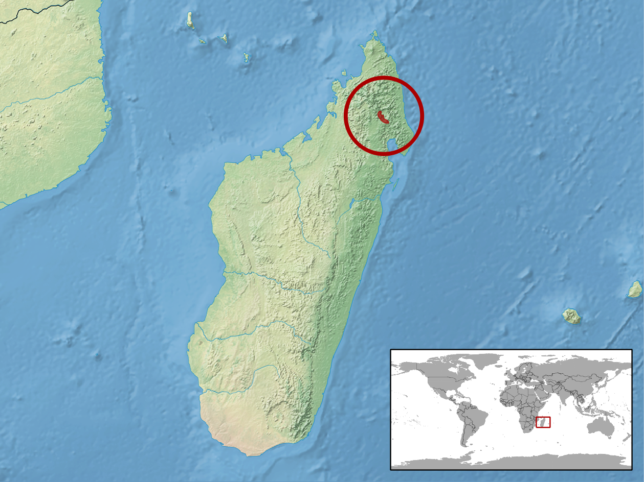 geographic distribution of Calumma vencesi (Native: Madagascar)